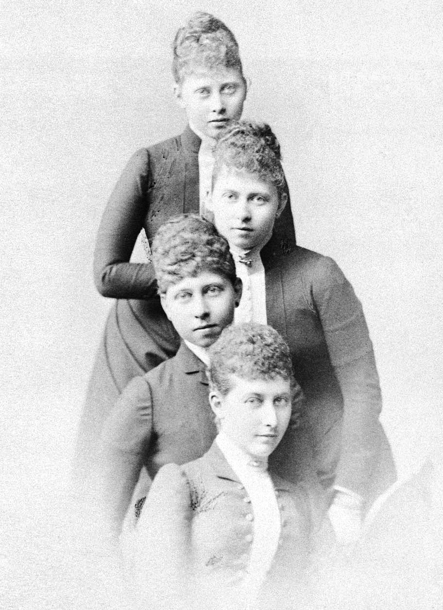 Charlotte, Duchess of Saxe-Meiningen and her sisters Photograph of the daughters of Emperor Friedrich III: Princess Margaret (1872–1954), Princess Sophie (1870–1932) and Princess Victoria (1866–1929) of Prussia, and Charlotte, Princess Bernhard of Saxe-Meiningen (1860–1919); half length portrait, vignette